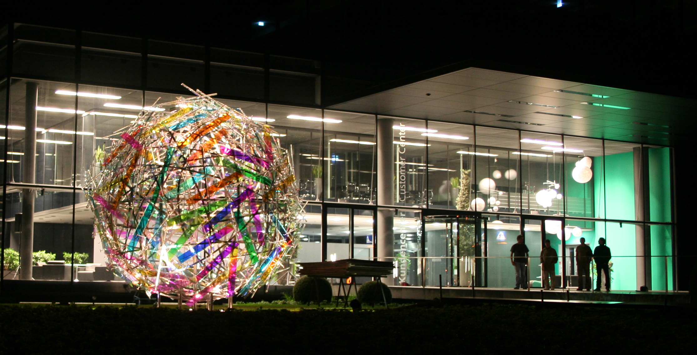 Gordon Huether was commissioned to create this sculpture for the exterior of a new customer center for ARBURG GmbH & Co. KG in Loßburg, Germany. ARBURG is a leading global manufacturer of injection molding machines for plastics. The spherical form provides a complementary contrast to the building’s stacked rectangles while symbolizing ARBURG’s global reach. The range of colors throughout the form, reflect ARBURG’s ability to create products with a wide range of colors. The sculpture is fabricated from stainless steel, pulled art-glass rods optically perfect Pyrex and Dichroic glass.